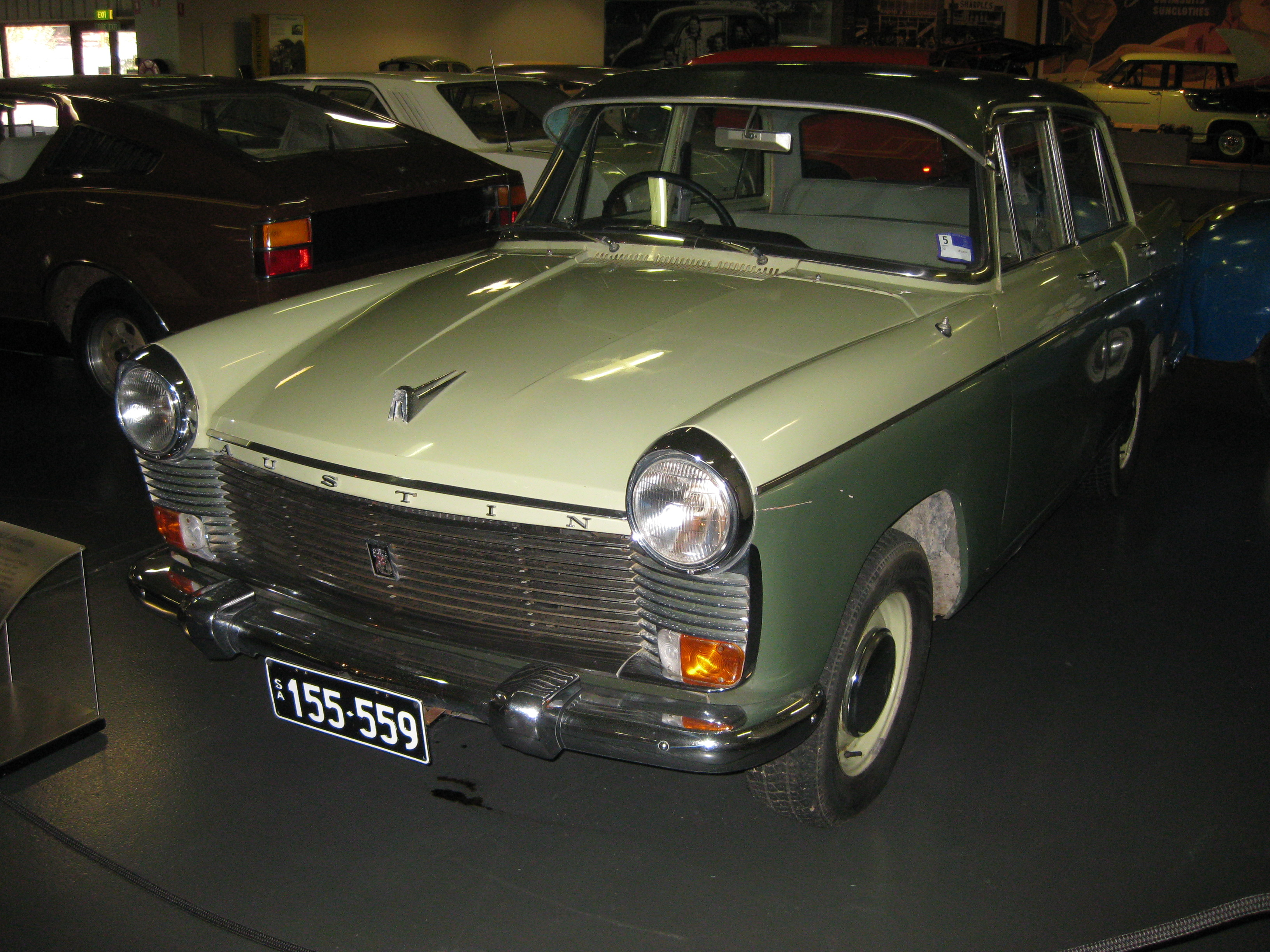 Austin Freeway Sedan